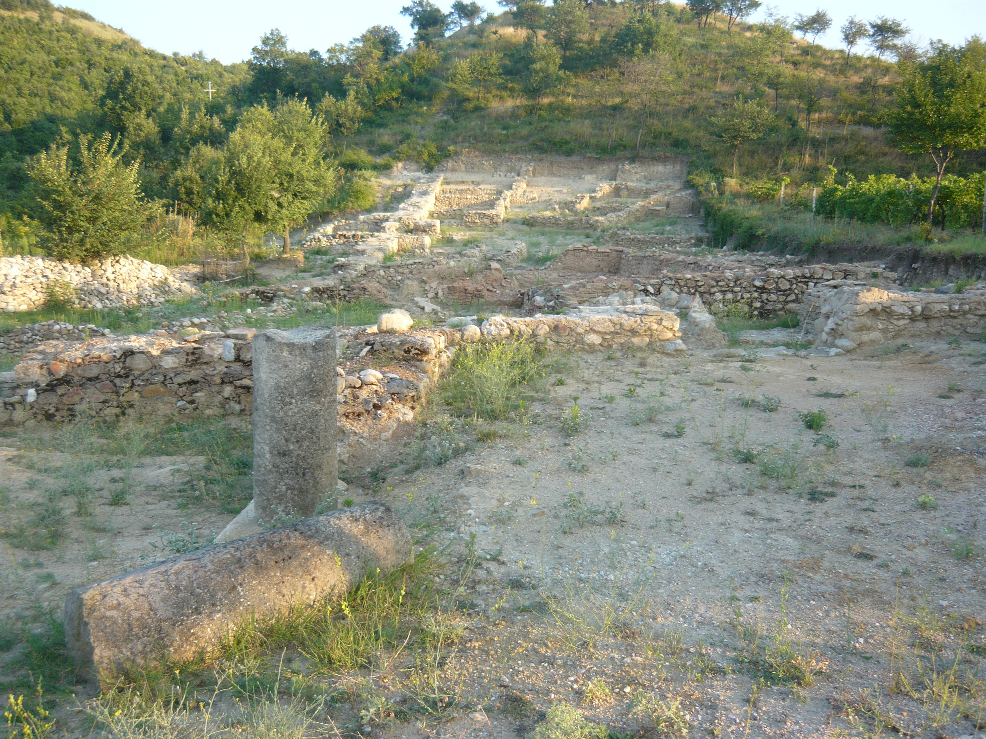 Tauresium, an ancient town and the birthplace of Eastern Roman (Byzantine) Emperor Justinian I, located today in the Republic of Macedonia